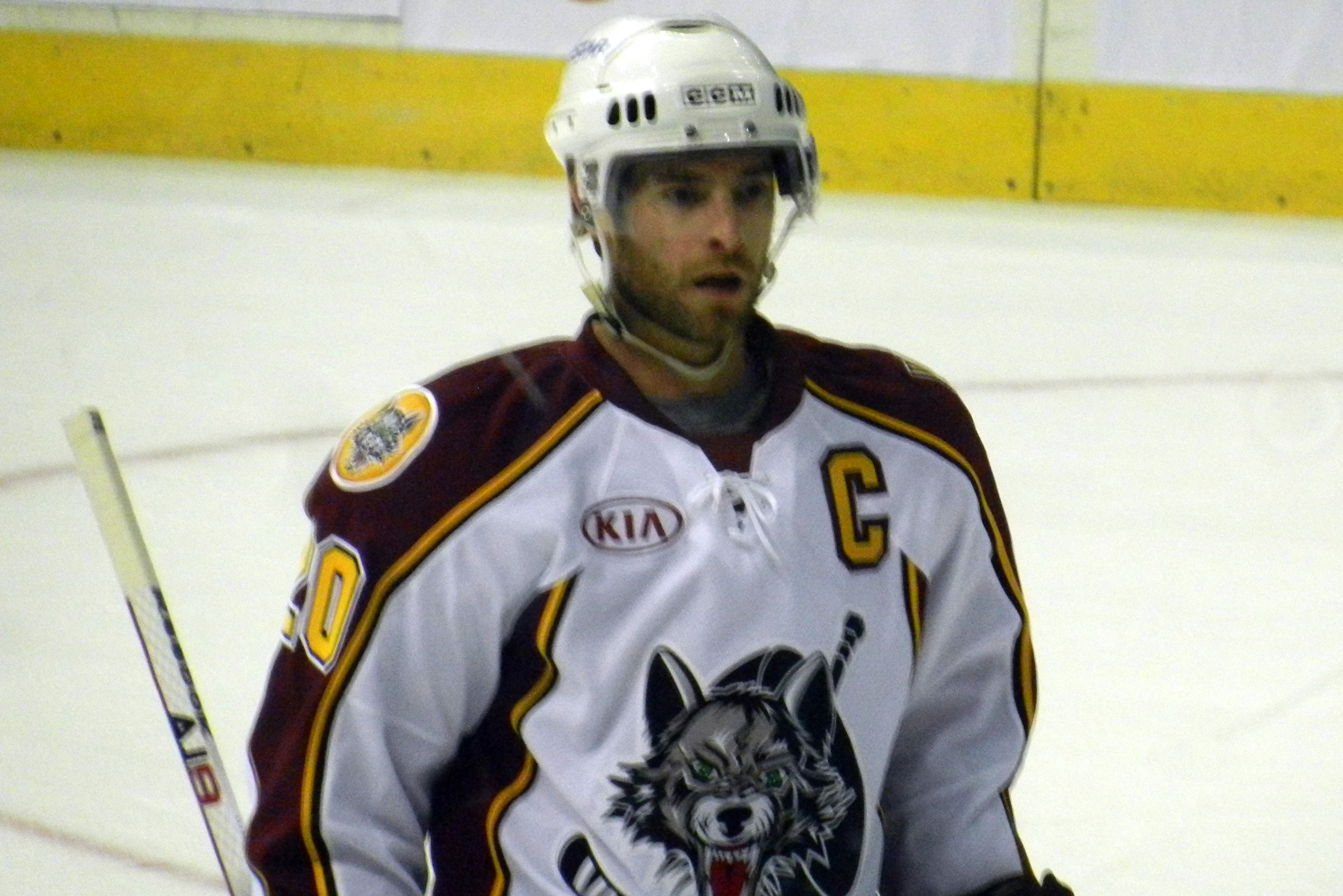 Darren Haydar as Captain of the Chicago Wolves during the 2012-13 AHL season.